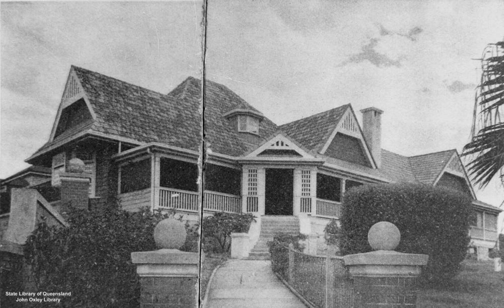 Federation style residence Wairuna at 27 Hampstead Road Highgate Hill Brisbane, circa 1945